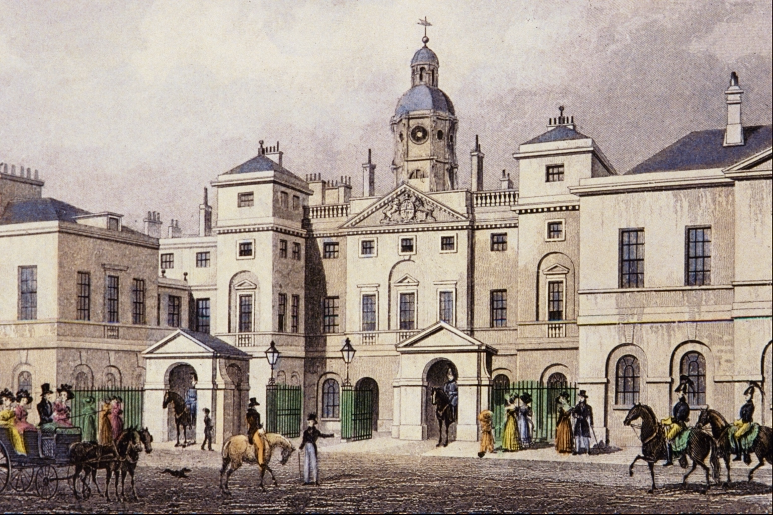 Horse Guards, Parliament Street